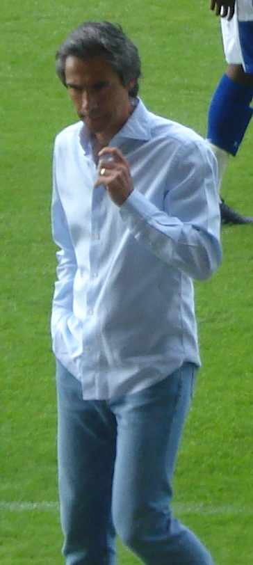 Image of Paulo Sousa